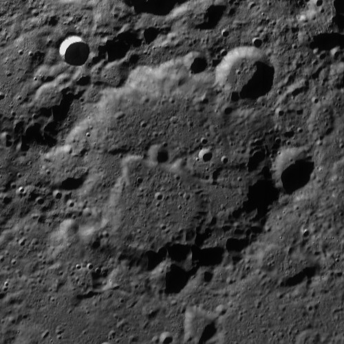 Seares crater, on the moon. Lunar Reconnaissance Orbiter North Polar mosaic.